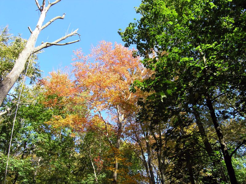 Bartlett Arboretum and Gardens, Stamford, Connecticut